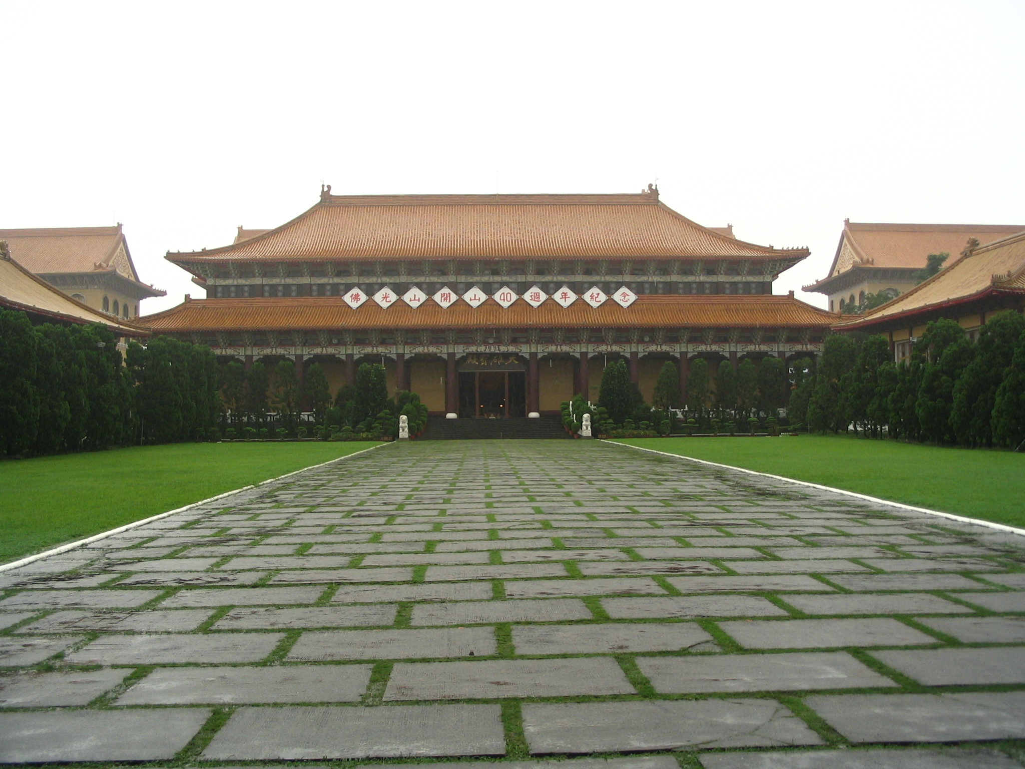 Fo Guang Shan, Taiwan